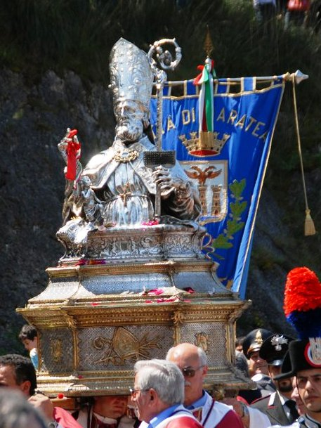 The Saint Blaise statue after the undressing.